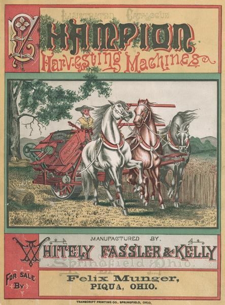 Cover of an advertising catalog for the Champion line of harvesting machines manufactured by Whitely, Fassler & Kelly. The cover features a colored engraving of a farmer harvesting grain with a reaper-binder drawn by three horses. The cover is imprinted with the name "Felix Munger, Piqua, OH".